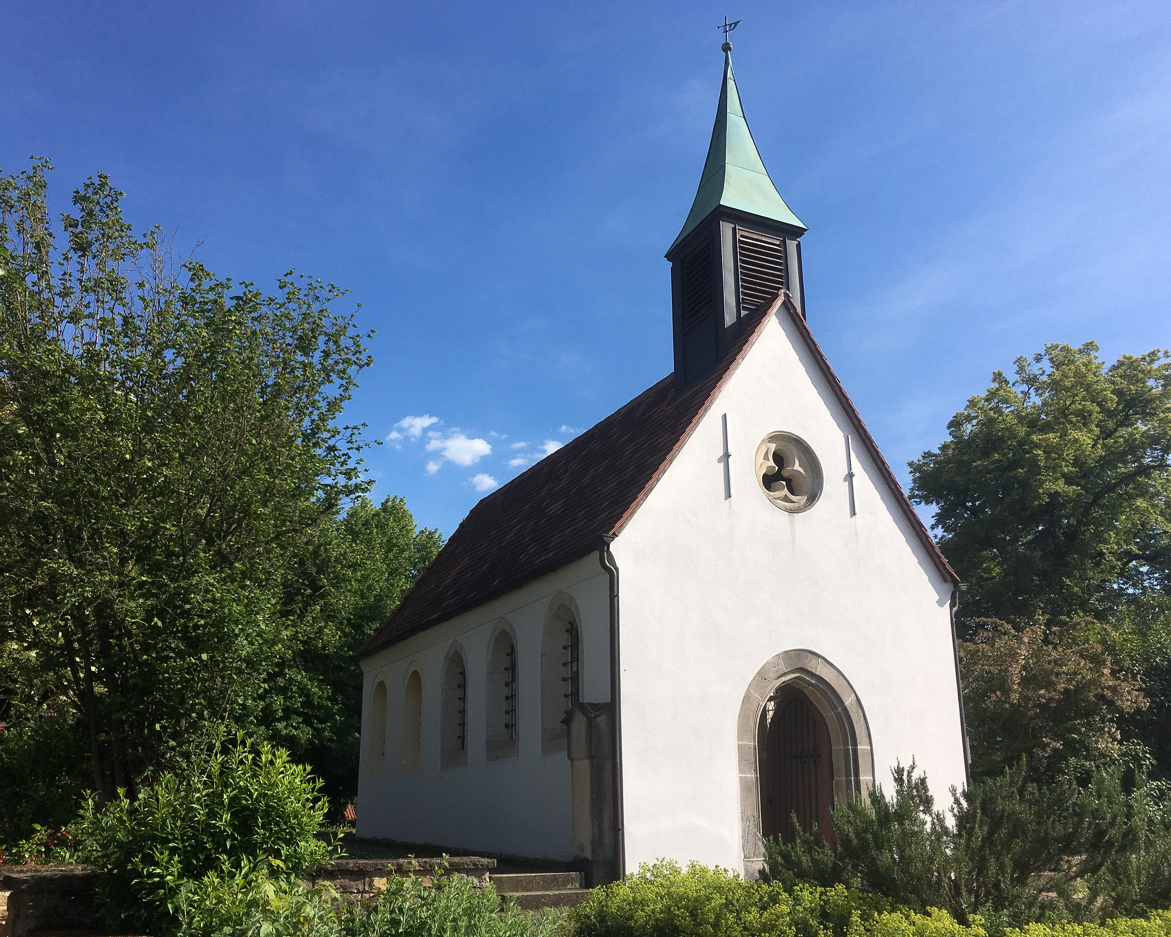 "Maria-Hilf-Kapelle" (Mary Help chapel) at Wernau, state of Baden-Württemberg, Germany. View of West portal.